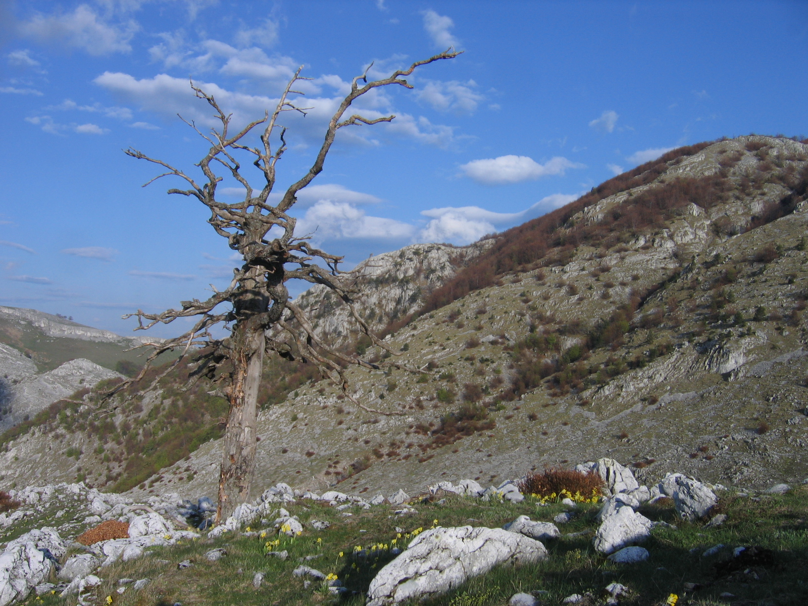 Mehedinti mountains Romania